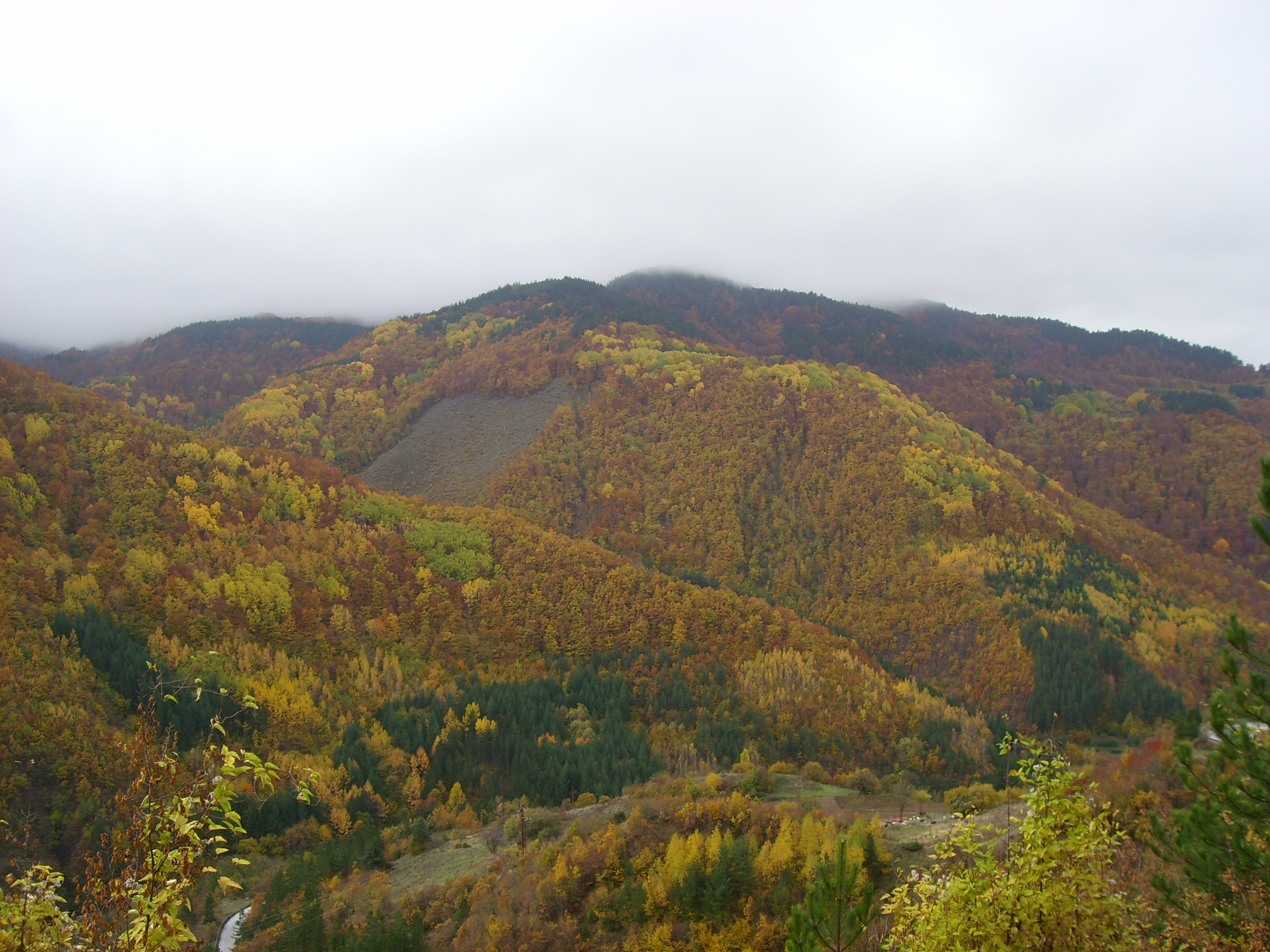 View of the village of Beden.